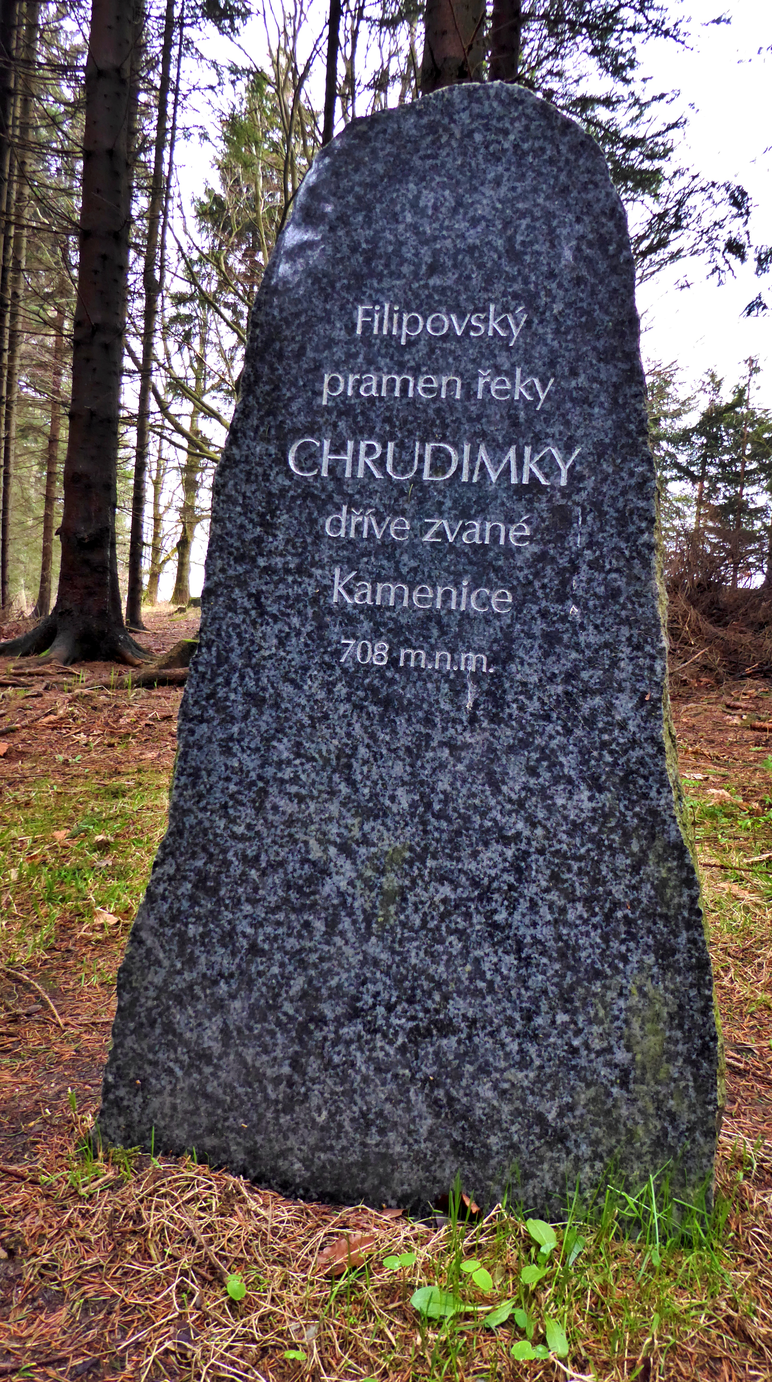 The "Filipovský" spring is the main source of the river Chrudimka with natural spring of the groundwater on the Earth's surface, more precisely at an altitude of 705 m at the edge of the forest locality with name "Humperky" in the landscape area of the Iron Mountains, within the administrative division in the cadastral area of the Krouna municipality in the Chrudim district, belonging to the Pardubice Region in the Czech Republic. The river has more springs in the area at the village "Kameničky", above the settlement Filipov, from it the name of the source "Filipovský". From the point of view of hydrology, the most important source of the Chrudimka river. The geographical name of the river comes from the town of Chrudim and has been used since the 17th century. Above the spring there a granite obelisk with the inscription: "Filipovský" spring of Chrudimka River formerly called Kamenice 708 m above sea level. Photo location: Czechia, Pardubice Region, municipality Krouna, forest locality Humperky, "Filipovský" spring.